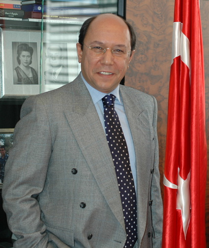 ( - Turkish ambassador to Berlin.. from the web-site of the Turkish embassy to Germany in Berlin.